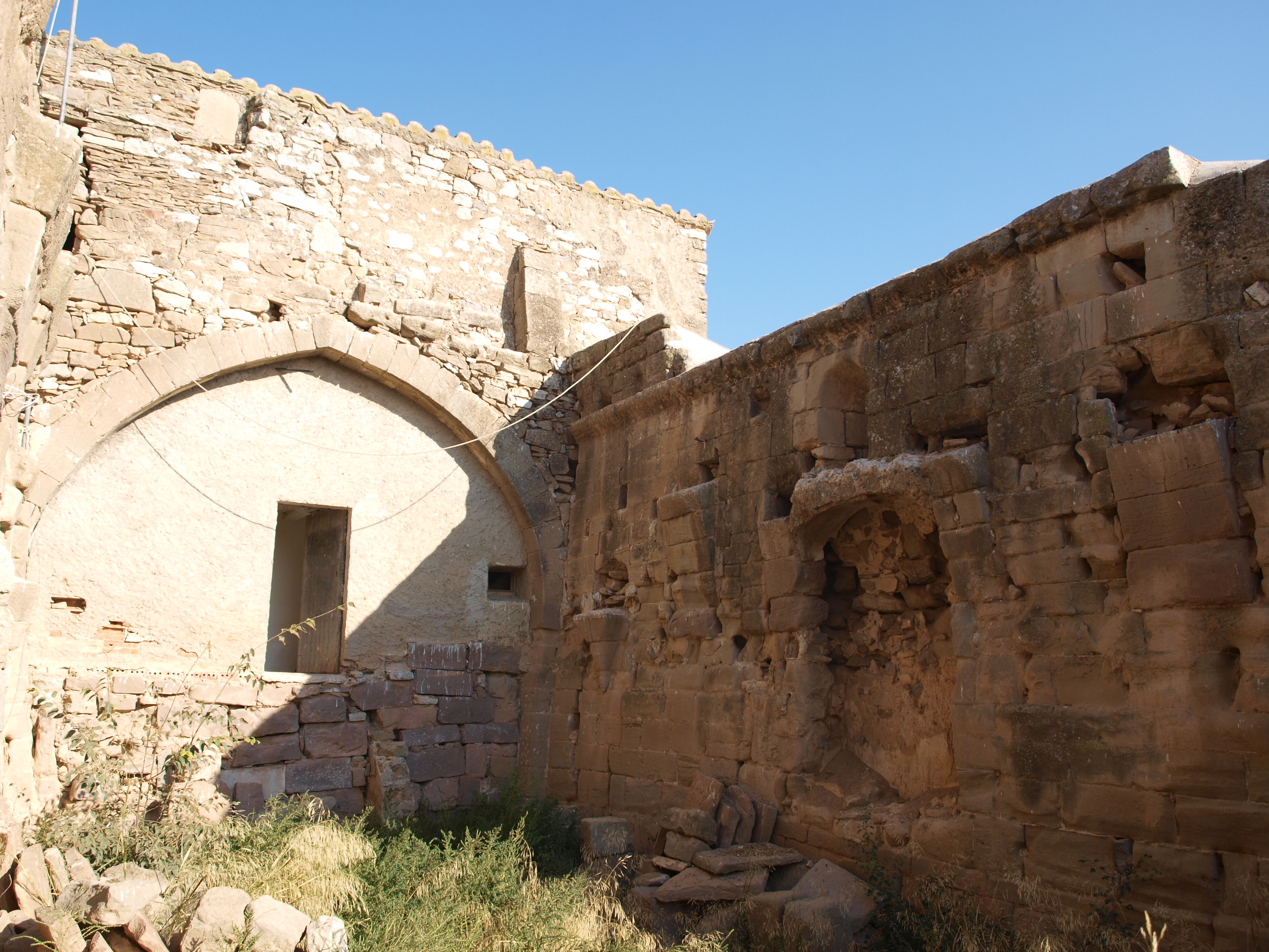 La Figuerosa — remains of an ancient church